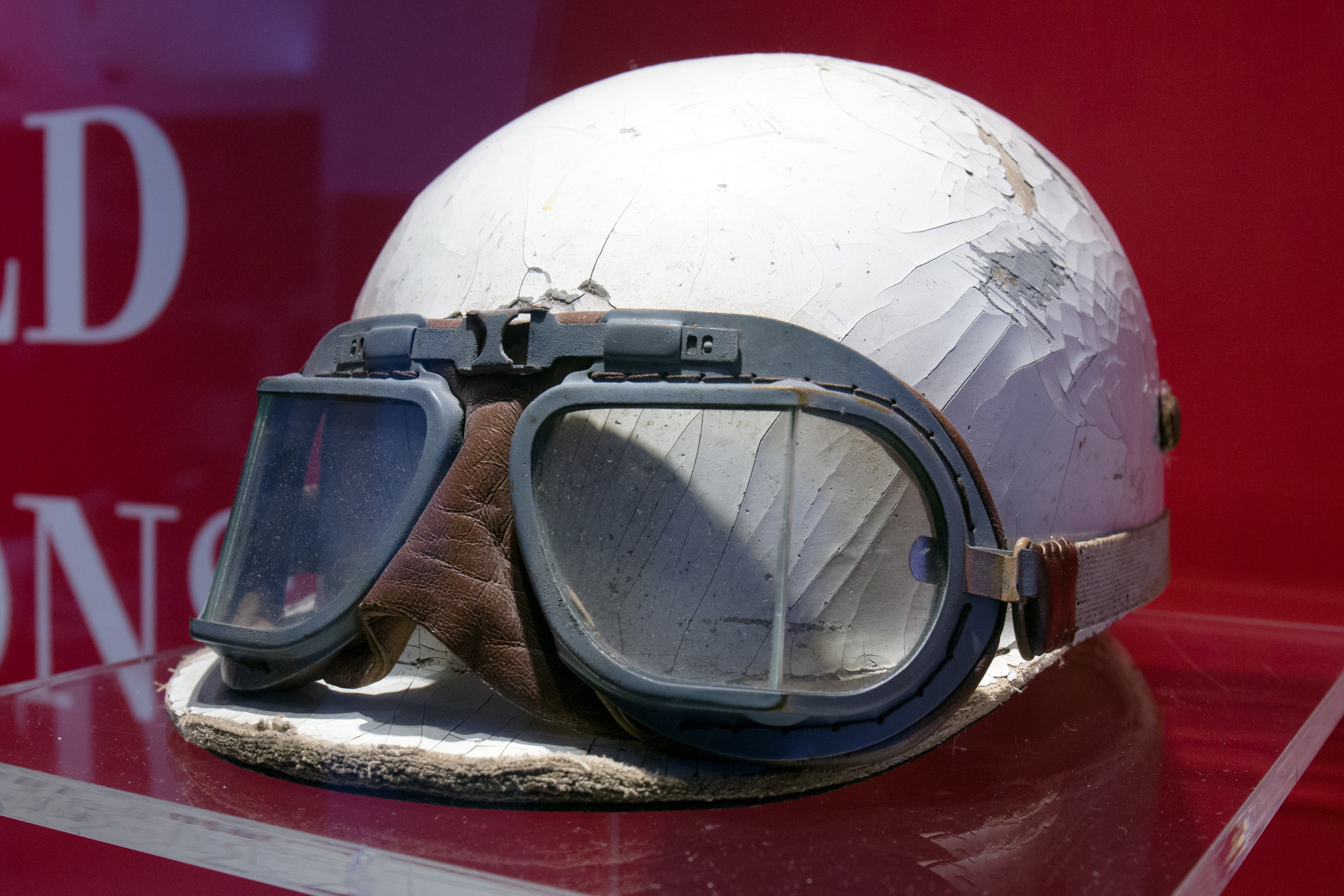 Museo Ferrari: Helmet and racing goggles of Alberto Ascari, in the 1950s.